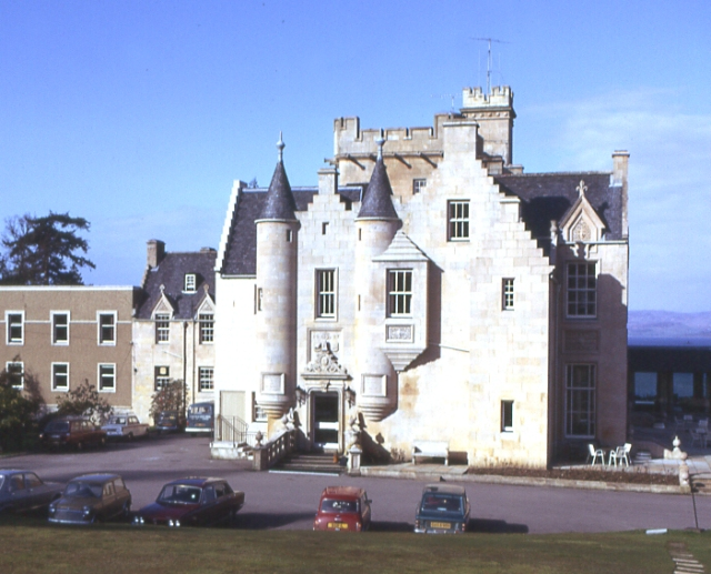 Stonefield Castle. The castle was extended by an unsightly wing to develop it as a luxury hotel.